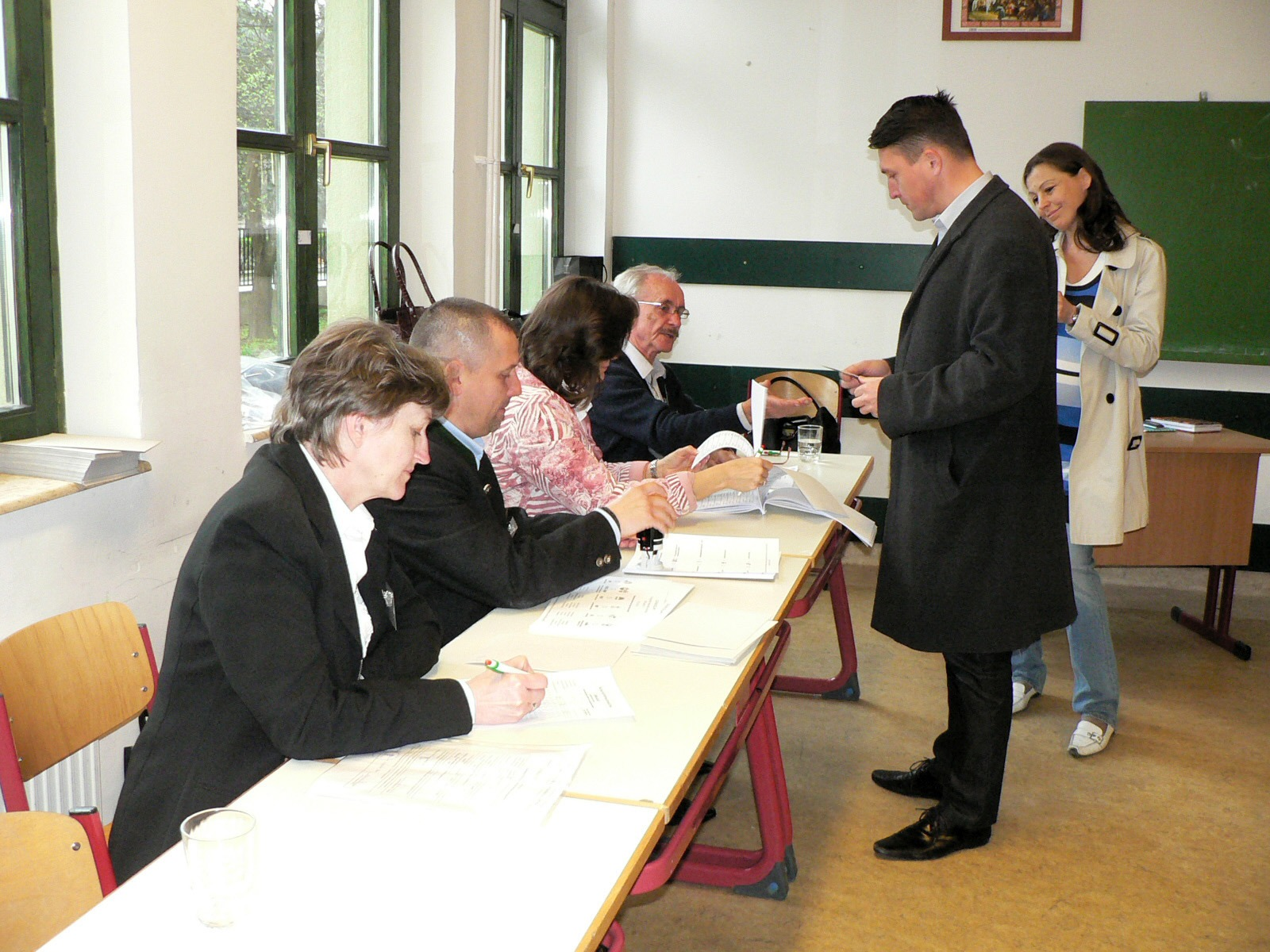 Kovács Ákos a 2010-es parlamenti választáson